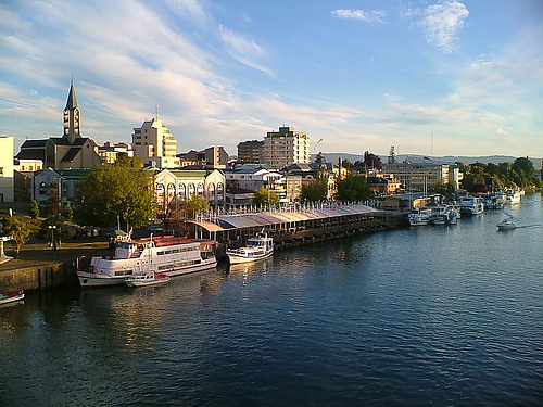 A typical "postal view" of Valdivia, Chile. Photo taken on "Pedro de Valdivia" bridge, while crossing to "Isla Teja"